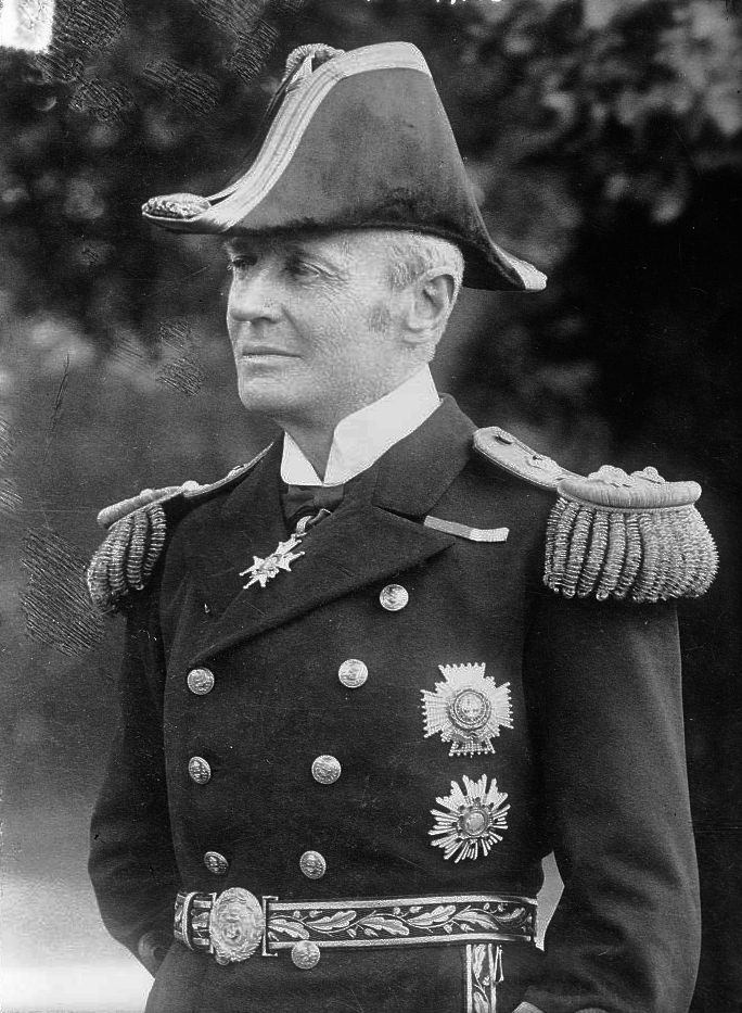 Bain News Service,, publisher. Adm. Sir A. Fanshawe [between ca. 1910 and ca. 1915] 1 negative : glass ; 5 x 7 in. or smaller. Notes: Title from unverified data provided by the Bain News Service on the negatives or caption cards. Forms part of: George Grantham Bain Collection (Library of Congress). Format: Glass negatives. Repository: Library of Congress, Prints and Photographs Division, Washington, D.C. 20540 USA, General information about the Bain Collection is available at Higher resolution image is available (Persistent URL): Call Number: LC-B2- 3223-9